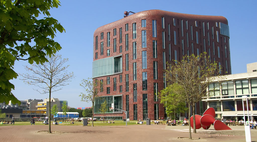 Vrije Universiteit (Amsterdam). De Rode Pieper houses the Institute for Health and Wellness.